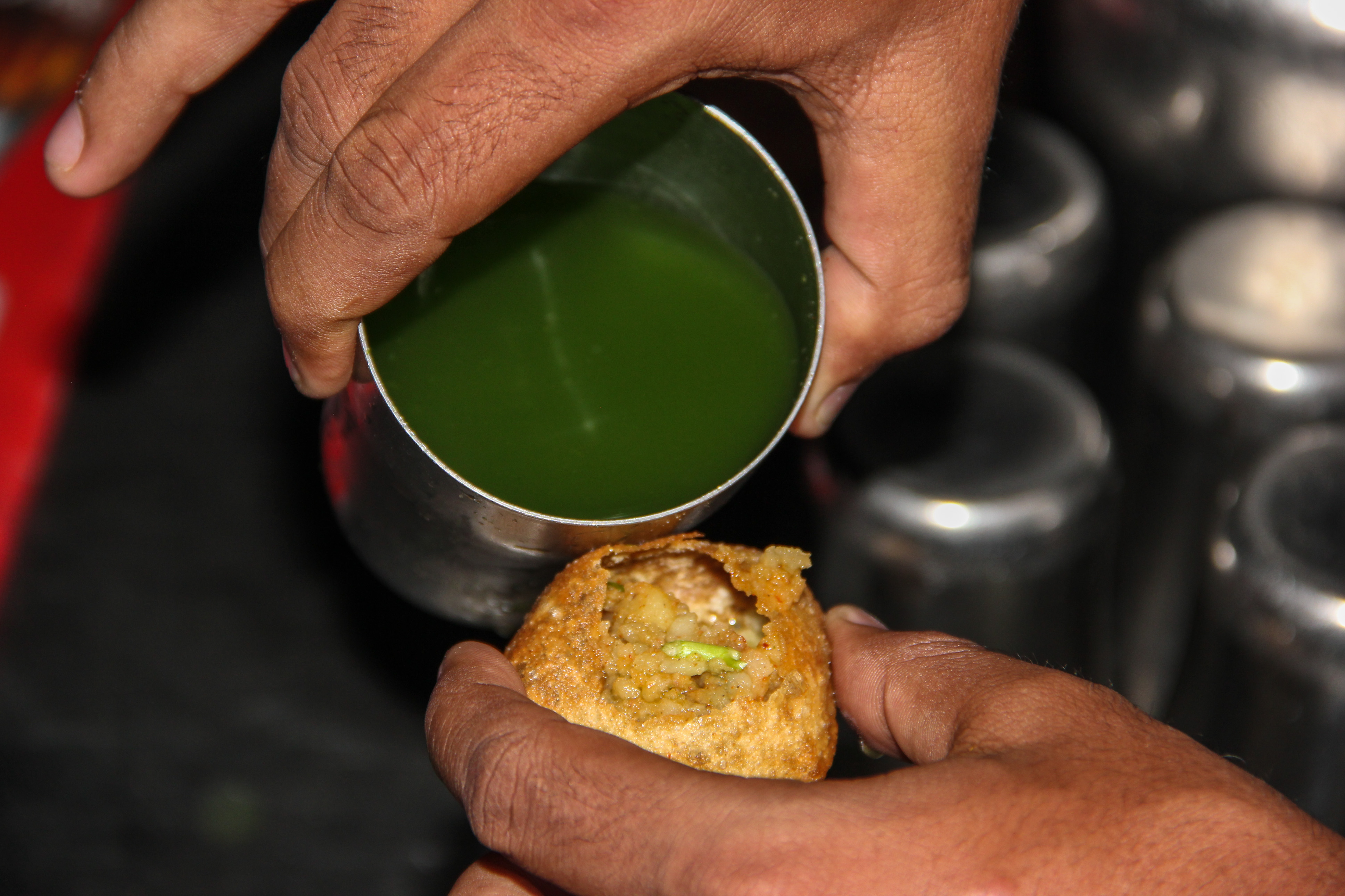 Panipuri This media file is uploaded with Malayalam loves Wikimedia event - 3.